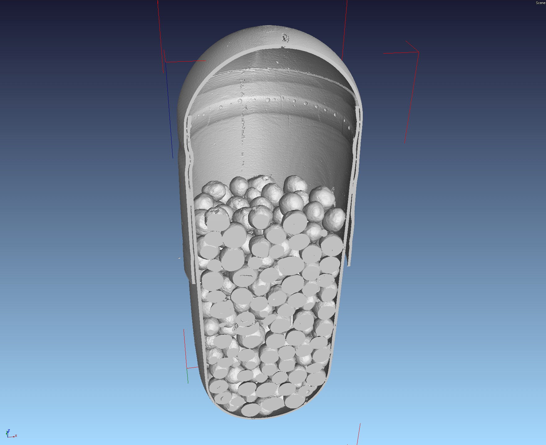 Microtomographic image of a pharmaceutical capsule containing Diclofenac. The resolution is about 12 µm/pixel. Data was acquired using a CT Alpha device by Procon X-Ray GmbH, Garbsen, Germany, and visualised using VG Studio Max by Volume Graphics, Heidelberg, Germany.